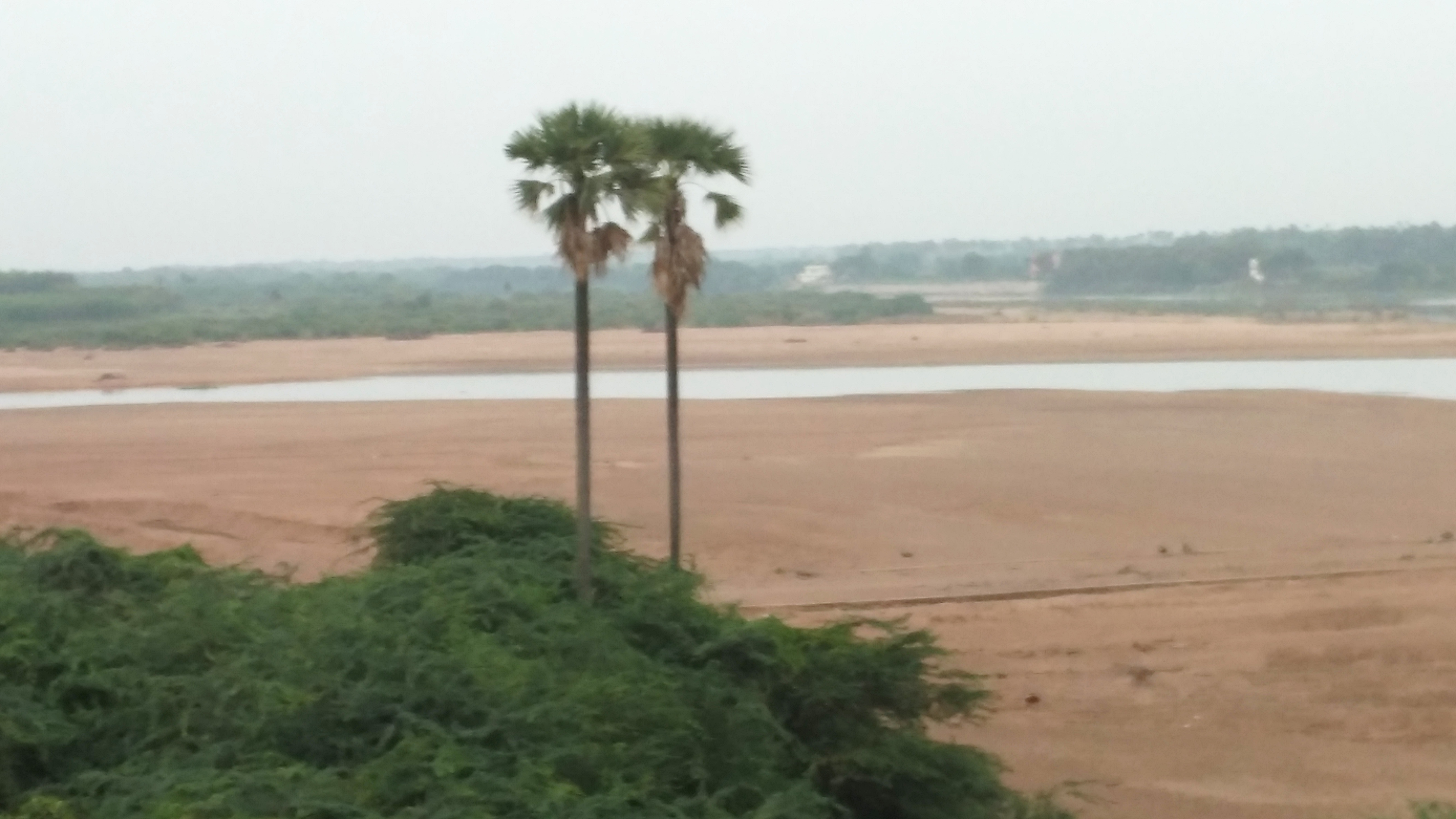 Munneru, a tributary of the Krishna River along with its sand dunes in winter season near Keesara Village, Kanchikicherla Mandal of Krishna District, A.P